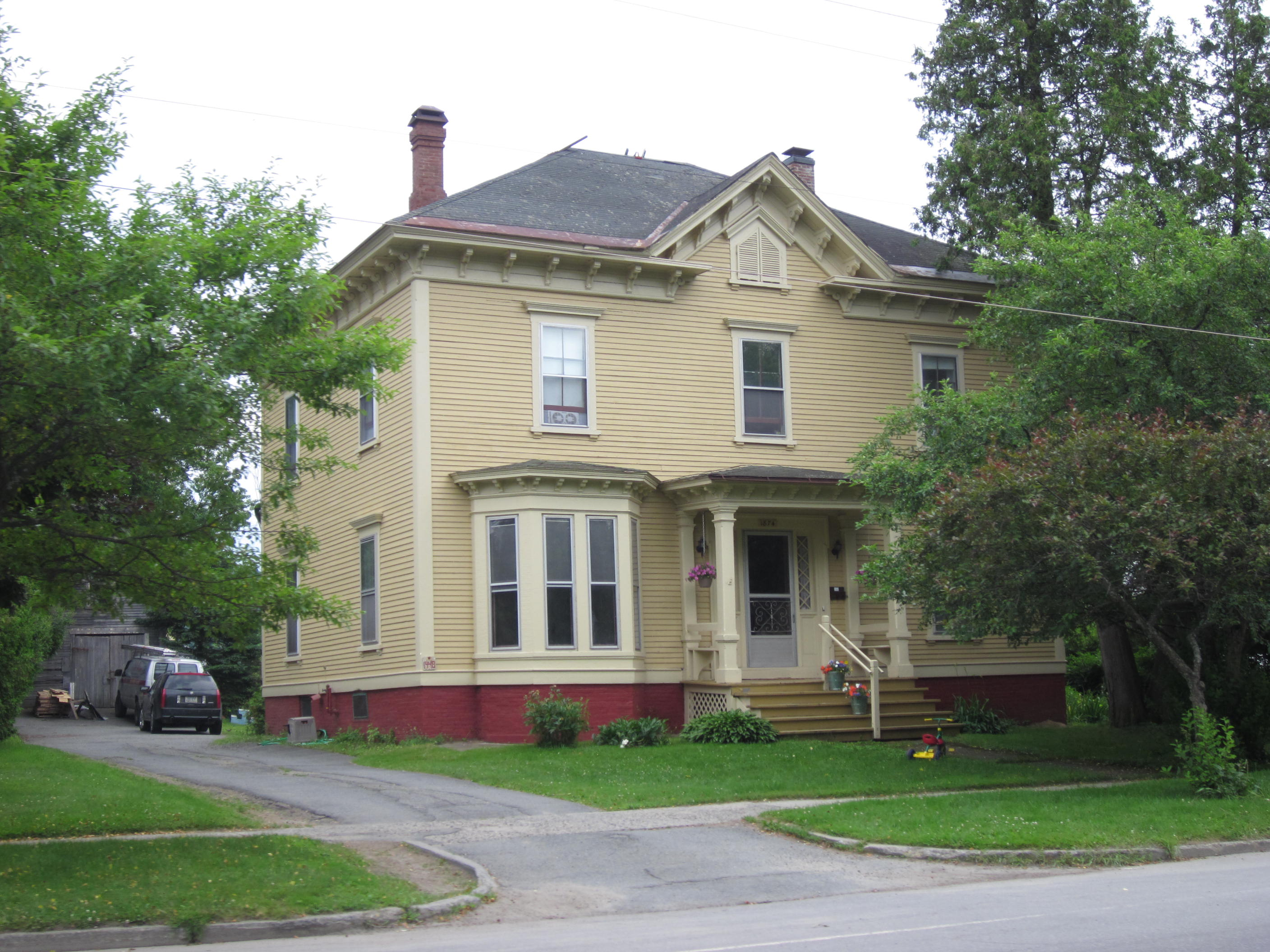 House on Main Street, St. Johnsbury, Vermont. Part of the Maple Street-Clarks Avenue Historic District.